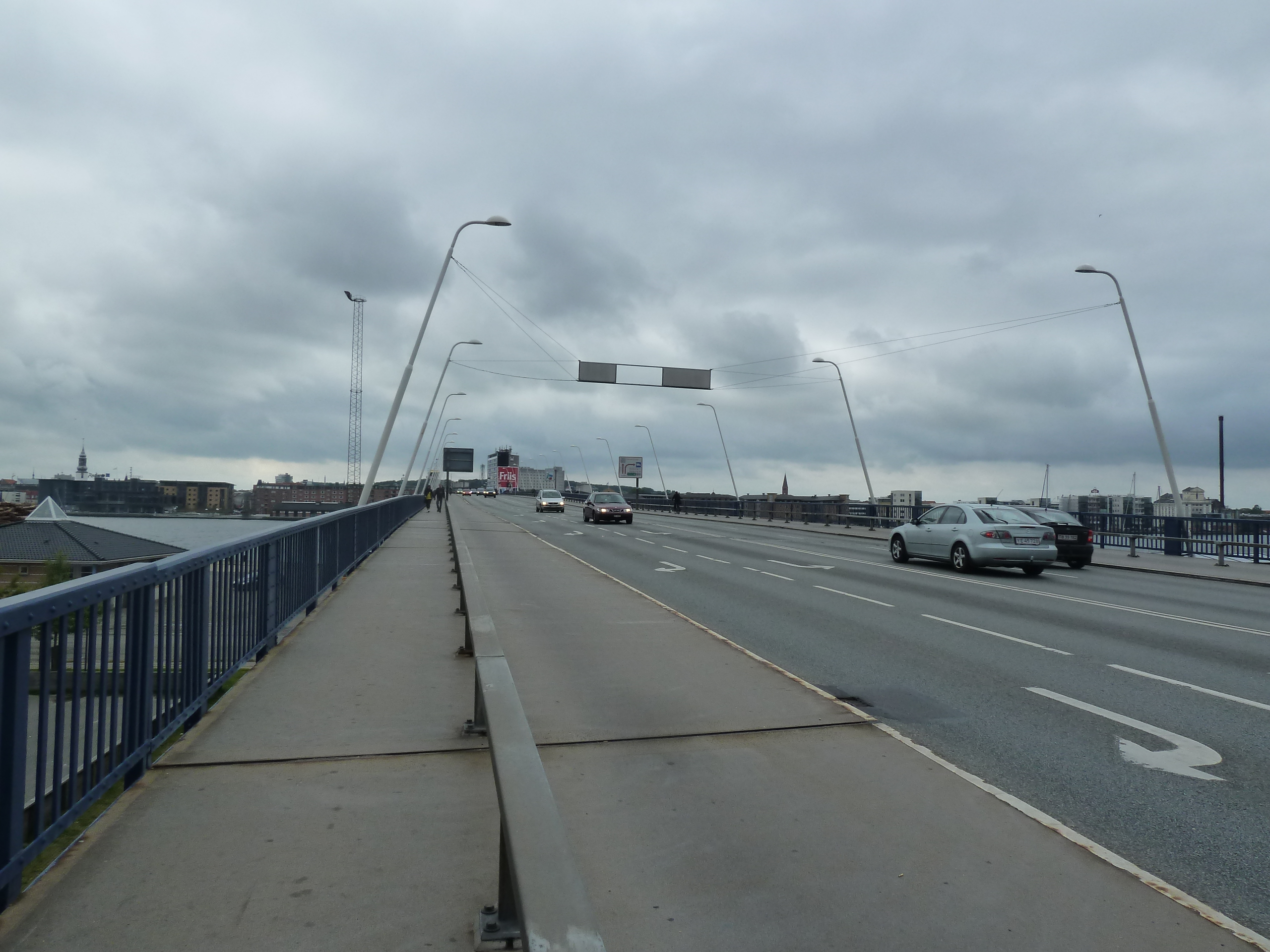 Limfjordsbroen between Nørresundby and Aalborg in Denmark.